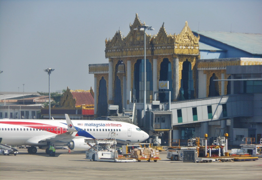 A B738 Malaysia Airlines